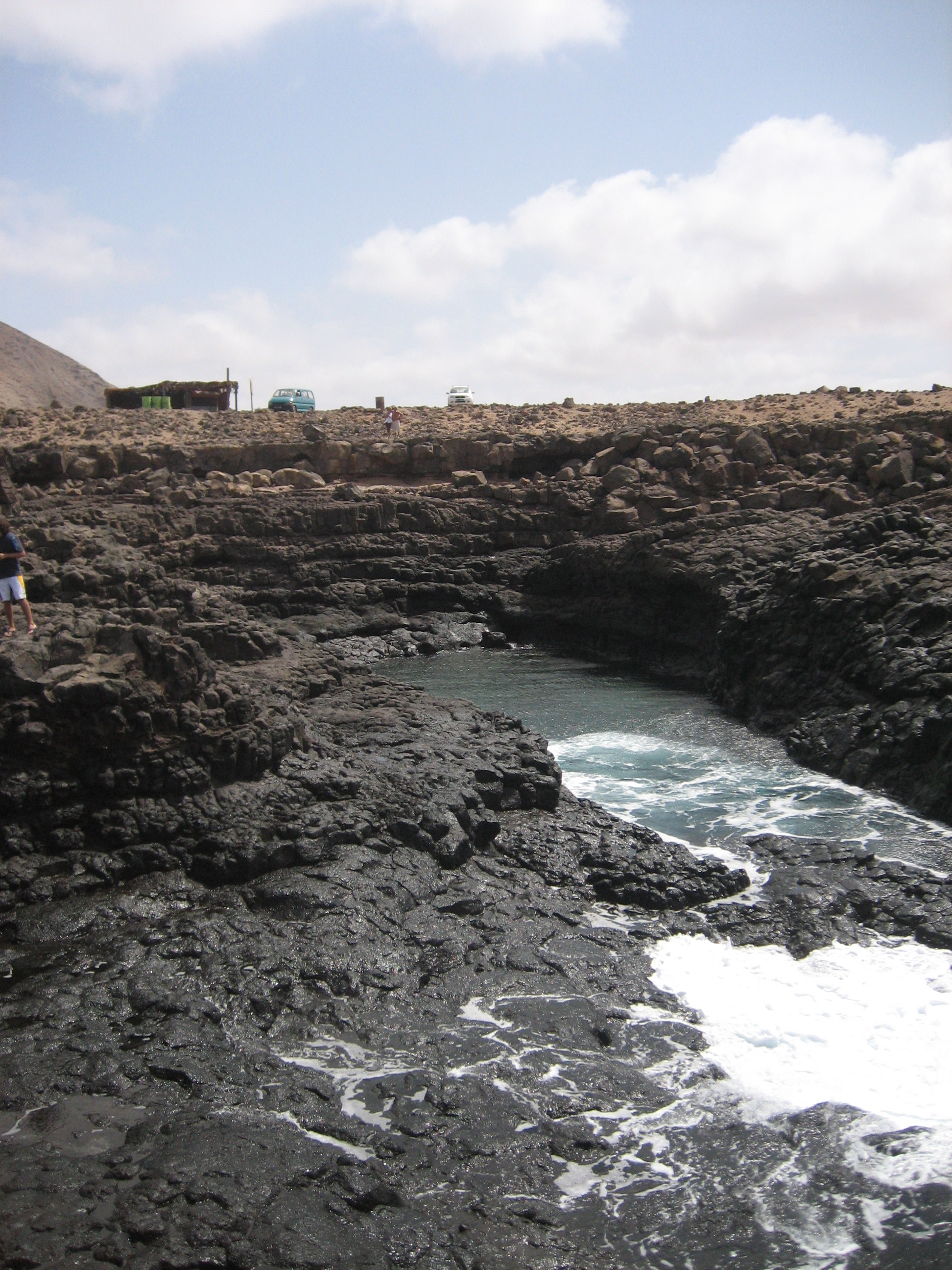 The touristic point Buracona on the island of Sal, Cape Verde